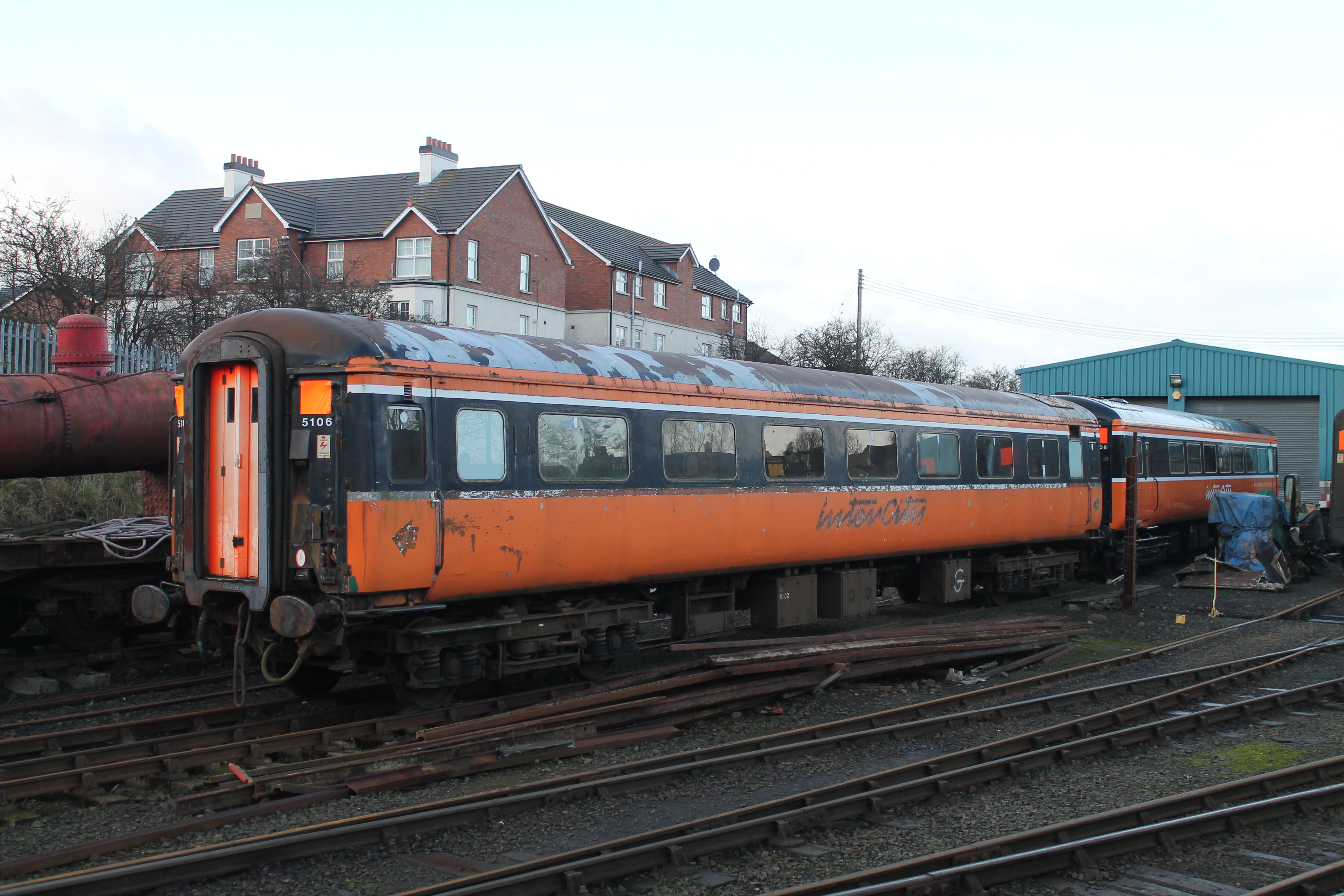 MkII coaches No.'s 5106 (First) and 5408 (Presidential Coach) at Whitehead RPSI depot.